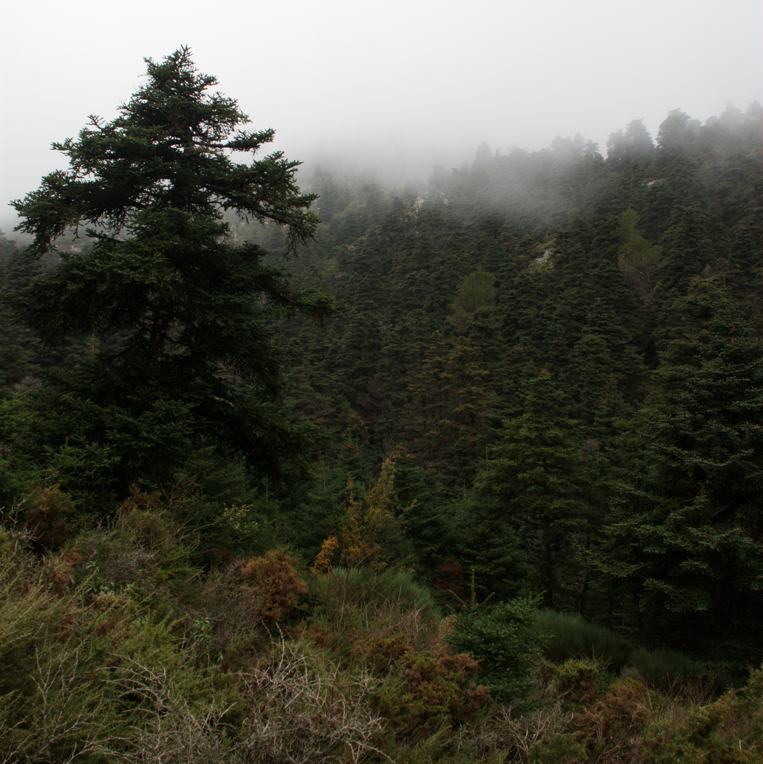 Forest of Pinsapos, Málaga, Spain